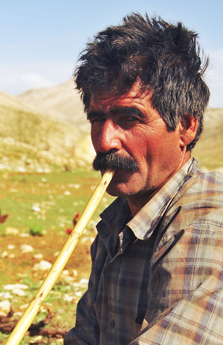 Nomad Qashqai man enjoying a hookah. Qashqi Turki of Sepidan, Iran.